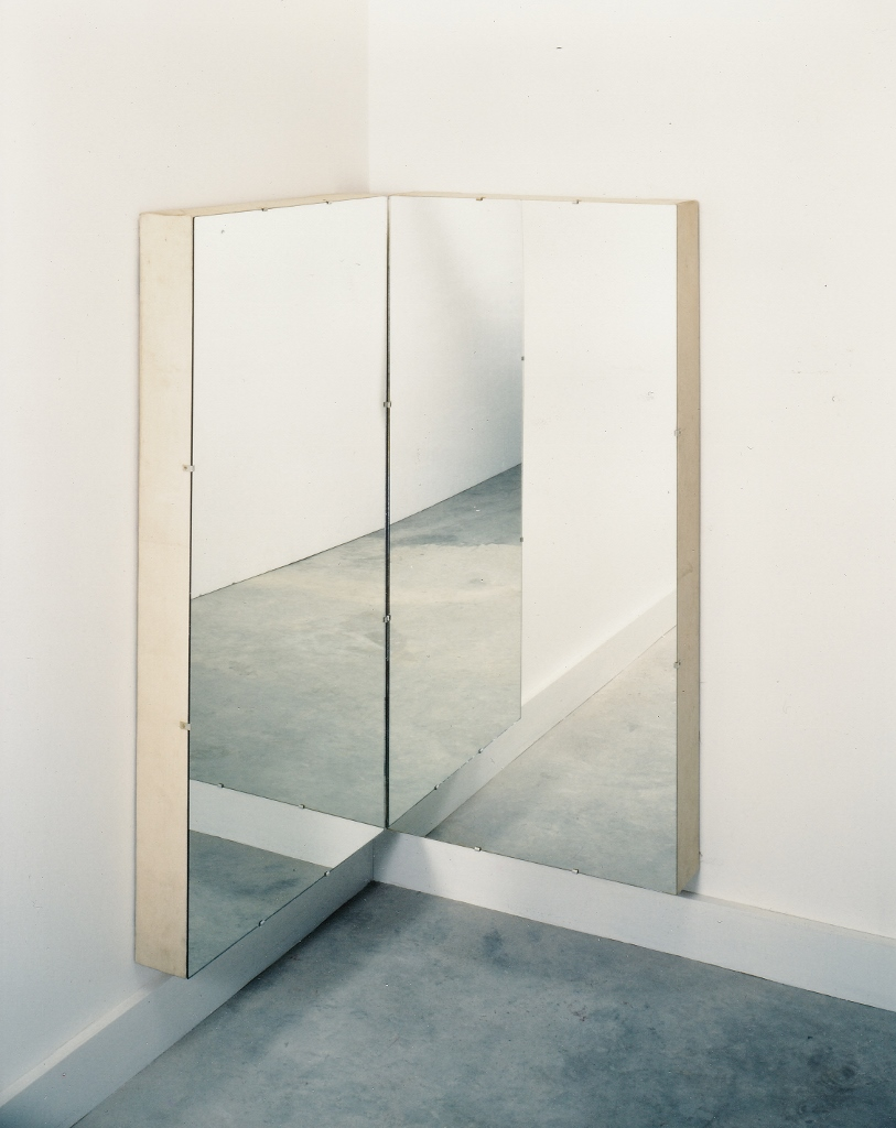 Mirror piece is a seminal art work of 1965 by the conceptual artists Art & Language. Art & Language replaced the space traditionally occupied by the painting with mirrors.